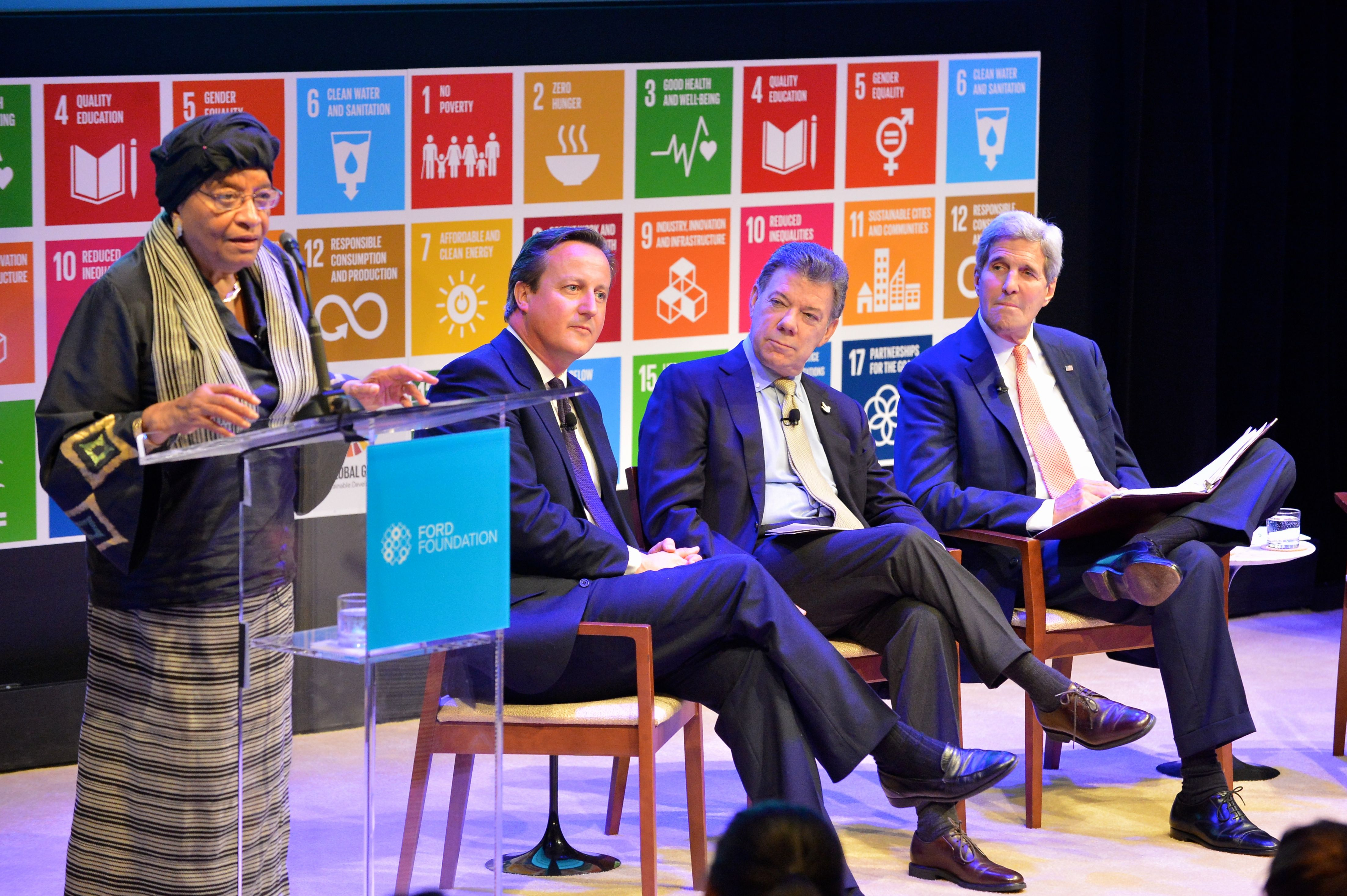 U.S. Secretary of State John Kerry listens as Liberian President Ellen Johnson Sirleaf delivers remarks during a Post-2015 Development Panel Discussion, hosted by UK Prime Minister David Cameron at the Ford Foundation, on the sidelines of the 70th Regular Session of the UN General Assembly in New York, New York, on September 27, 2015. [State Department photo/ Public Domain]